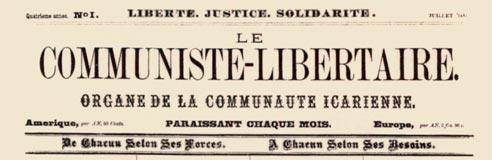 "The Communist-Libertarian", monthly journal of the Icarian Community, succeeding publication to "La Jeune Icarie" (published since May 1, 1878)